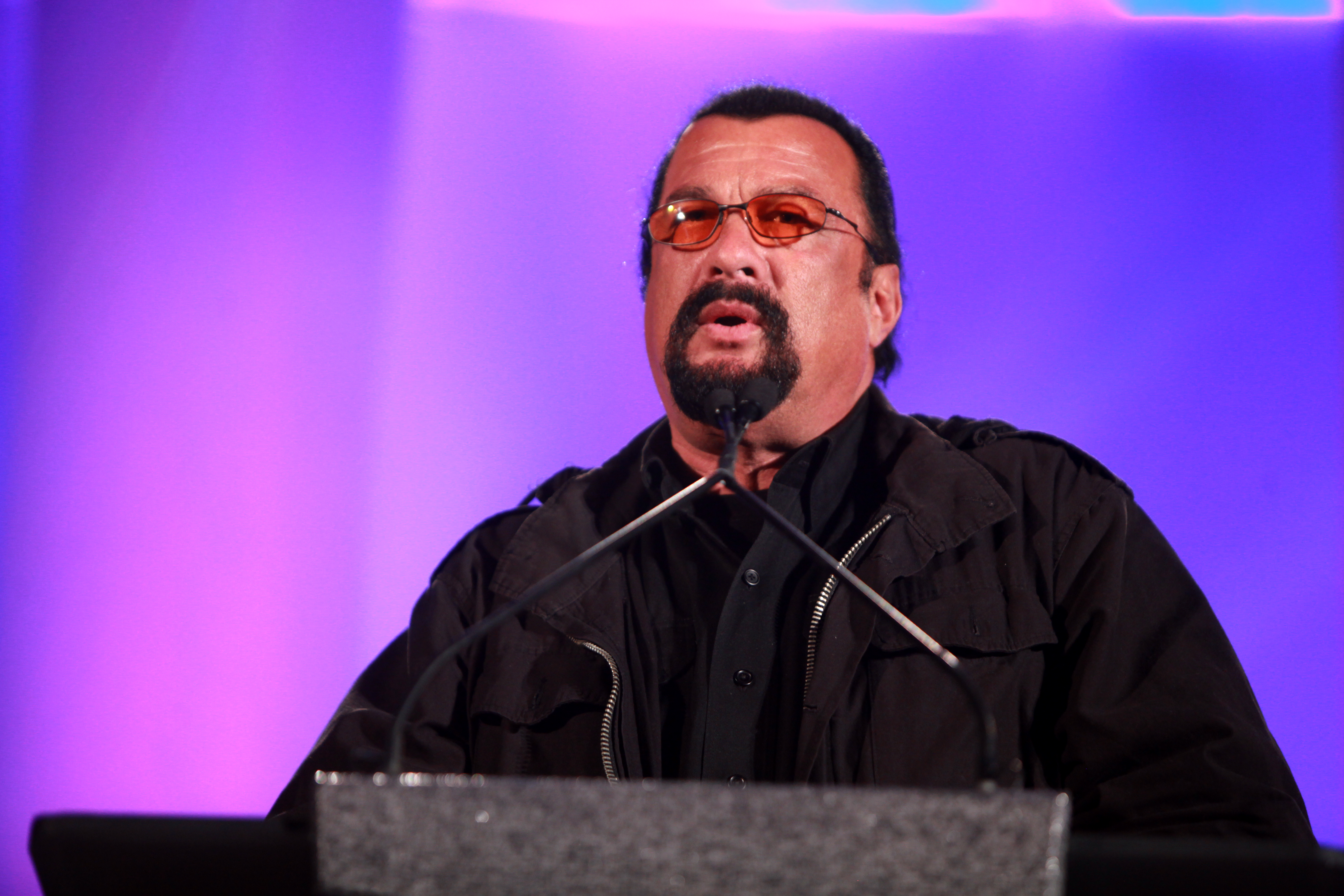 Steven Seagal speaking at the 2014 Western Conservative Conference at the Phoenix Convention Center in Phoenix, Arizona. Copyright © Western Center for Journalism/Gage Skidmore.